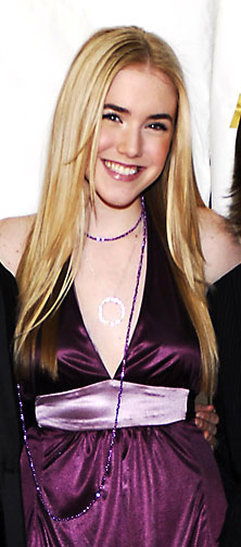 Monster House actress Spencer Locke at the 2006 Annie Awards red carpet at the Alex Theatre in Glendale, California.